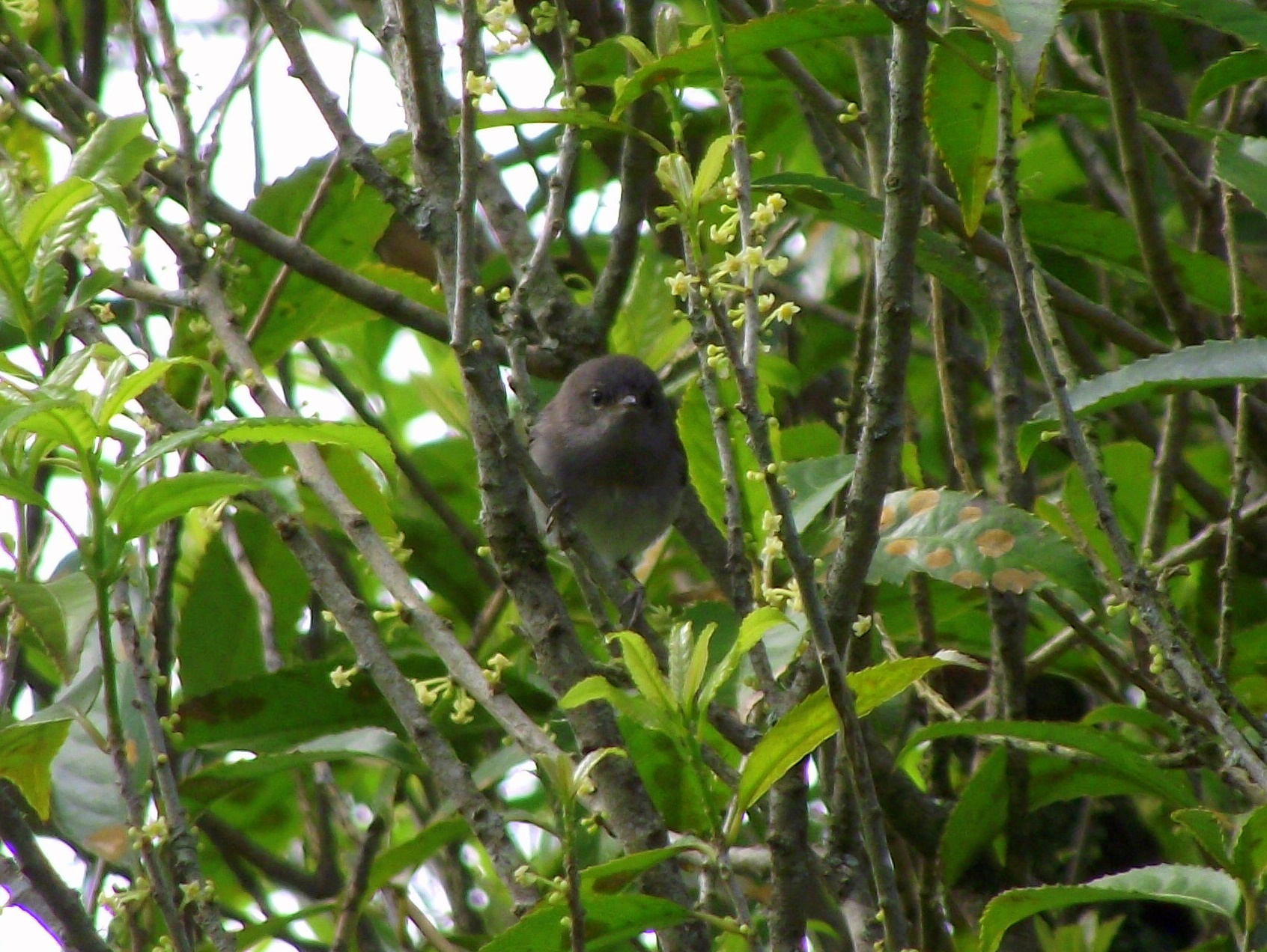 Juvenile Grey Warbler in Cambridge, New Zealand